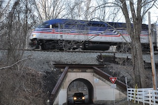 A Virginia Railway Express train travels over Colchester Overpass aka Bunnyman Bridge or Bunny Man Bridge as a vehicle passes underneath.